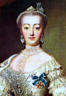 Sophie Magdalene, queen of Denmark and Norway